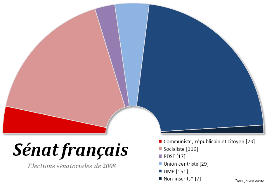 Political composition of the French Senate after the senatorial elections of 21 September 2008.